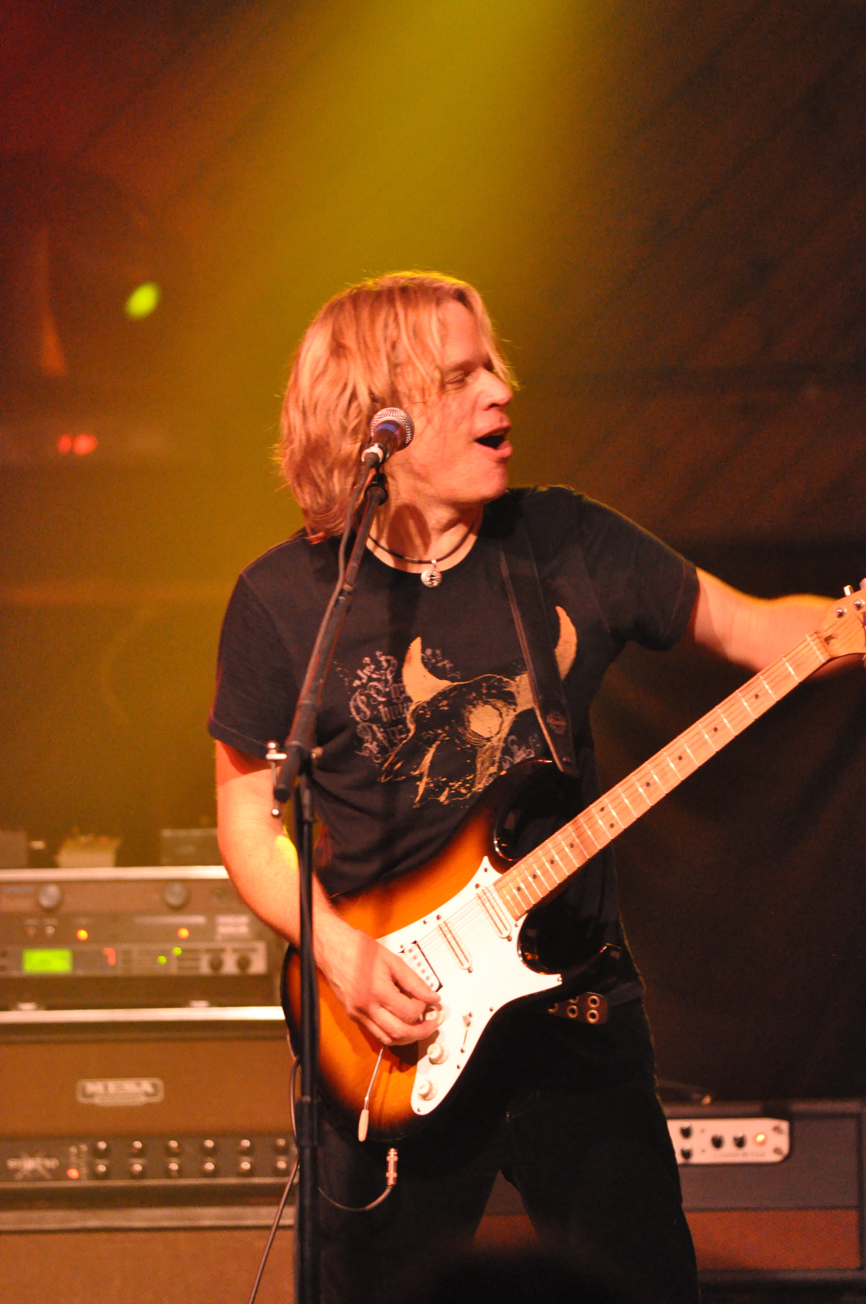 DSC_0599 / Andy Timmons